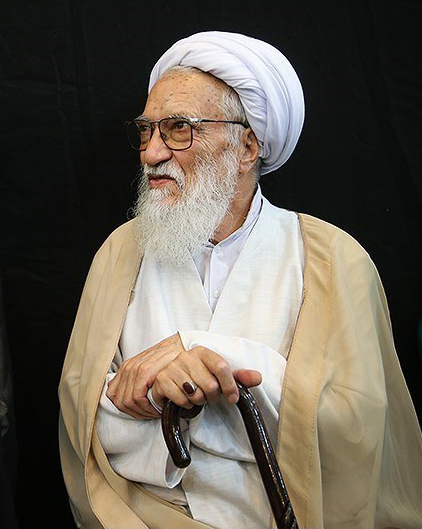 Ayatollah Ali Movahedi-Kermani is Tehran's Friday Prayer Ephemeral Imam and the current leader of Combatant Clergy Association